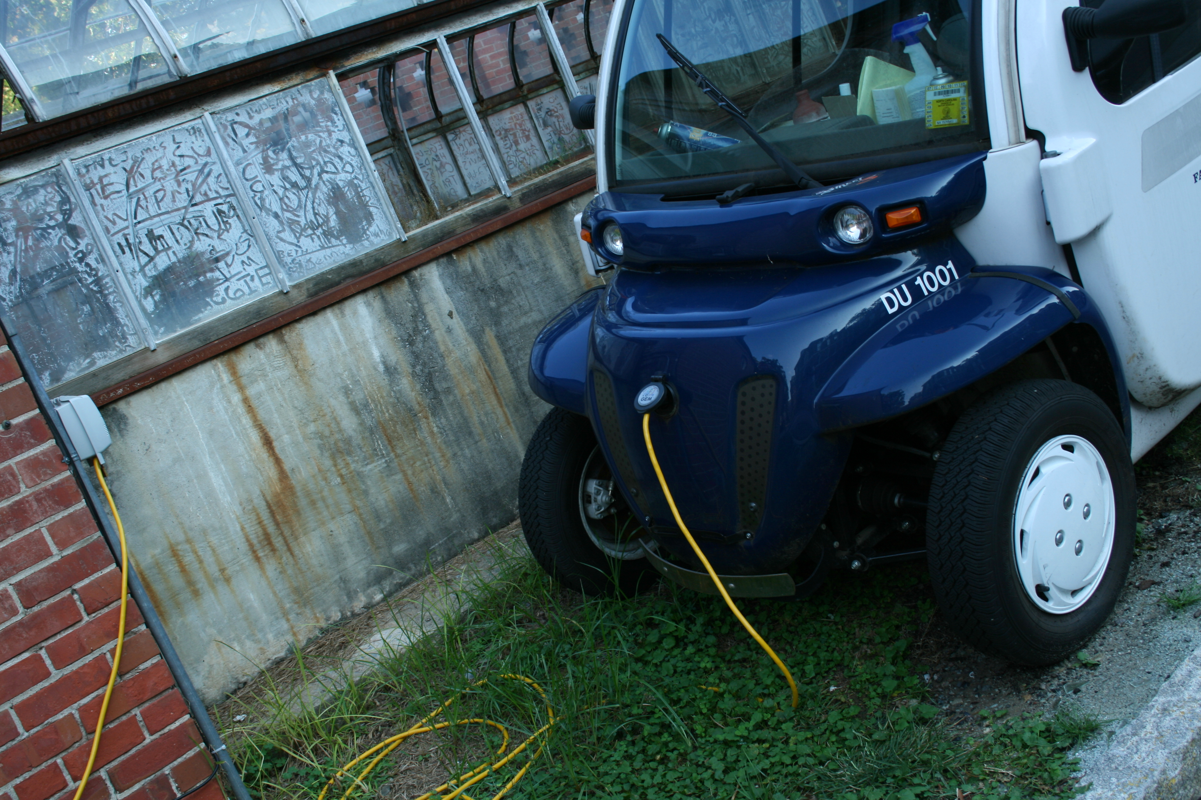 A Global Electric Motorcars (GEM) vehicle recharging via a socket at Duke University East Campus in Durham, North Carolina.